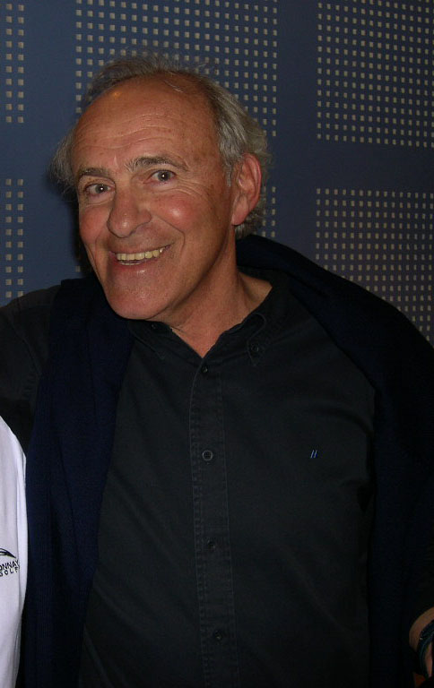 Mordechai Speigler